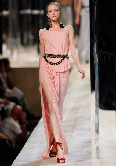 Vlada Roslyakova, Russian model, in Marc Jacobs Spring 2009 Collection